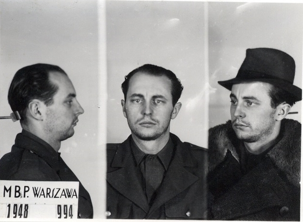 Jan Rodowicz (1923-1949) – Polish scout, soldier of Armia Krajowa during WW II. Arrested by communist political police (MBP) on Christmas Eve 1948, tortured and beaten to death during investigation